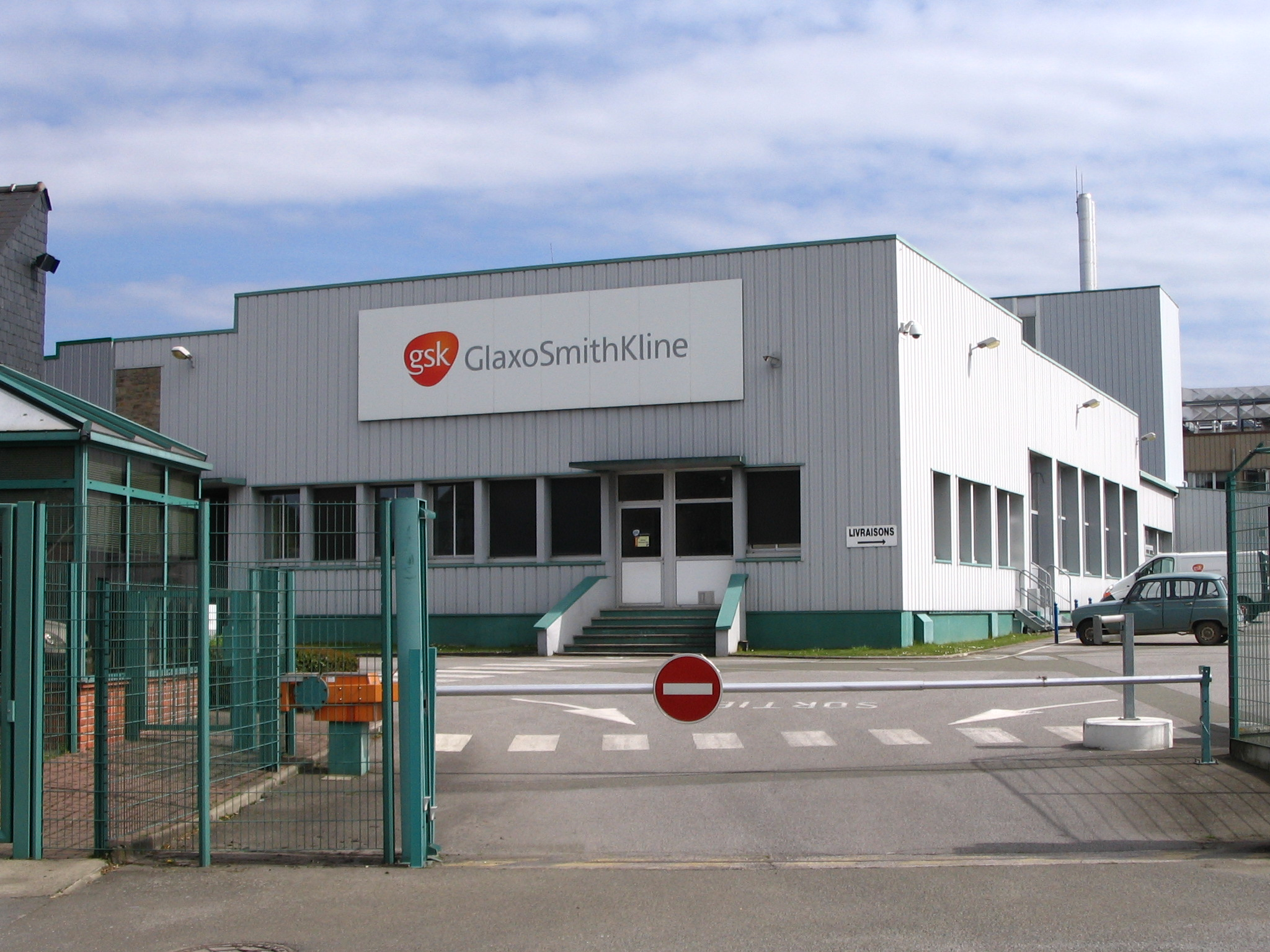 The industrial park of Mayenne, Mayenne, France.